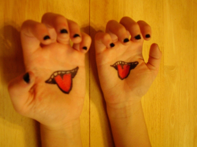 Deidara`s hands